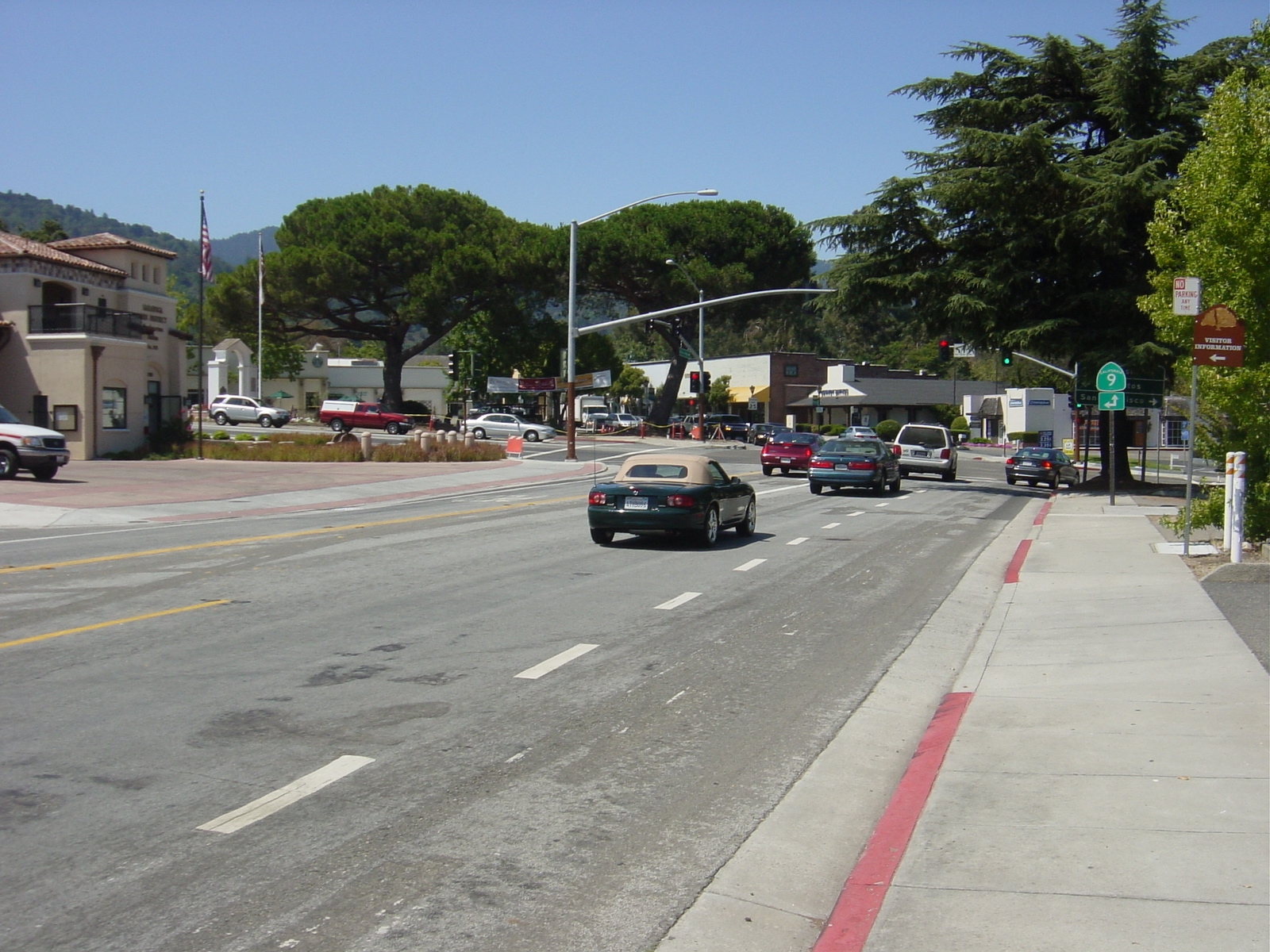 Downtown Saratoga, California, United States, facing southwest at the intersection of Saratoga-Los Gatos Blvd. (to the southeast) and Saratoga Ave (the road on which this picture is taken from) and Big Basin Way/State Route 9 (ahead), and Saratoga-Sunnyvale road (to the north).